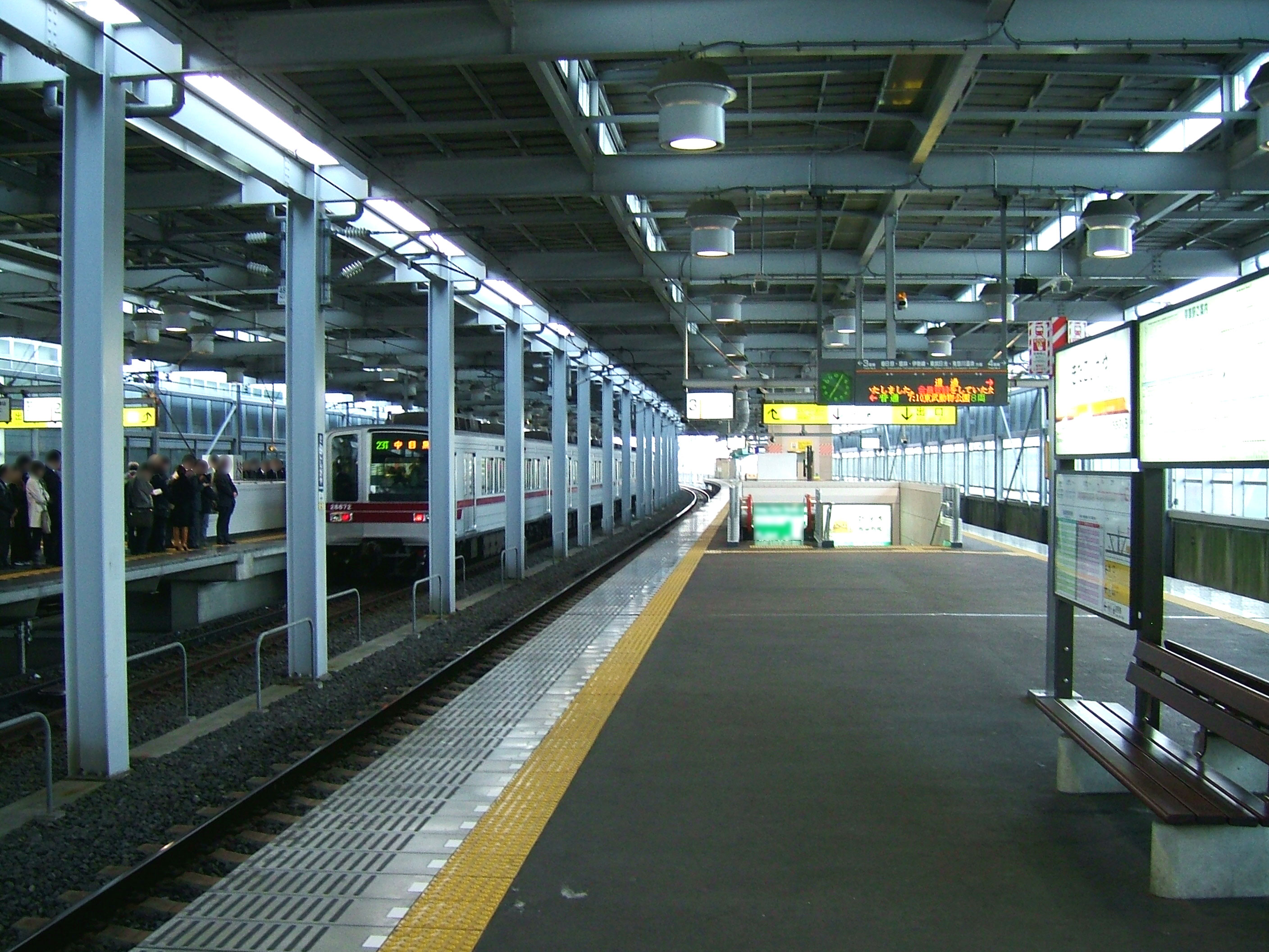 The down platforms 3 and 4 at Kita-Koshigaya Station on the Tobu Isesaki Line (present-day Tobu Skytree Line)